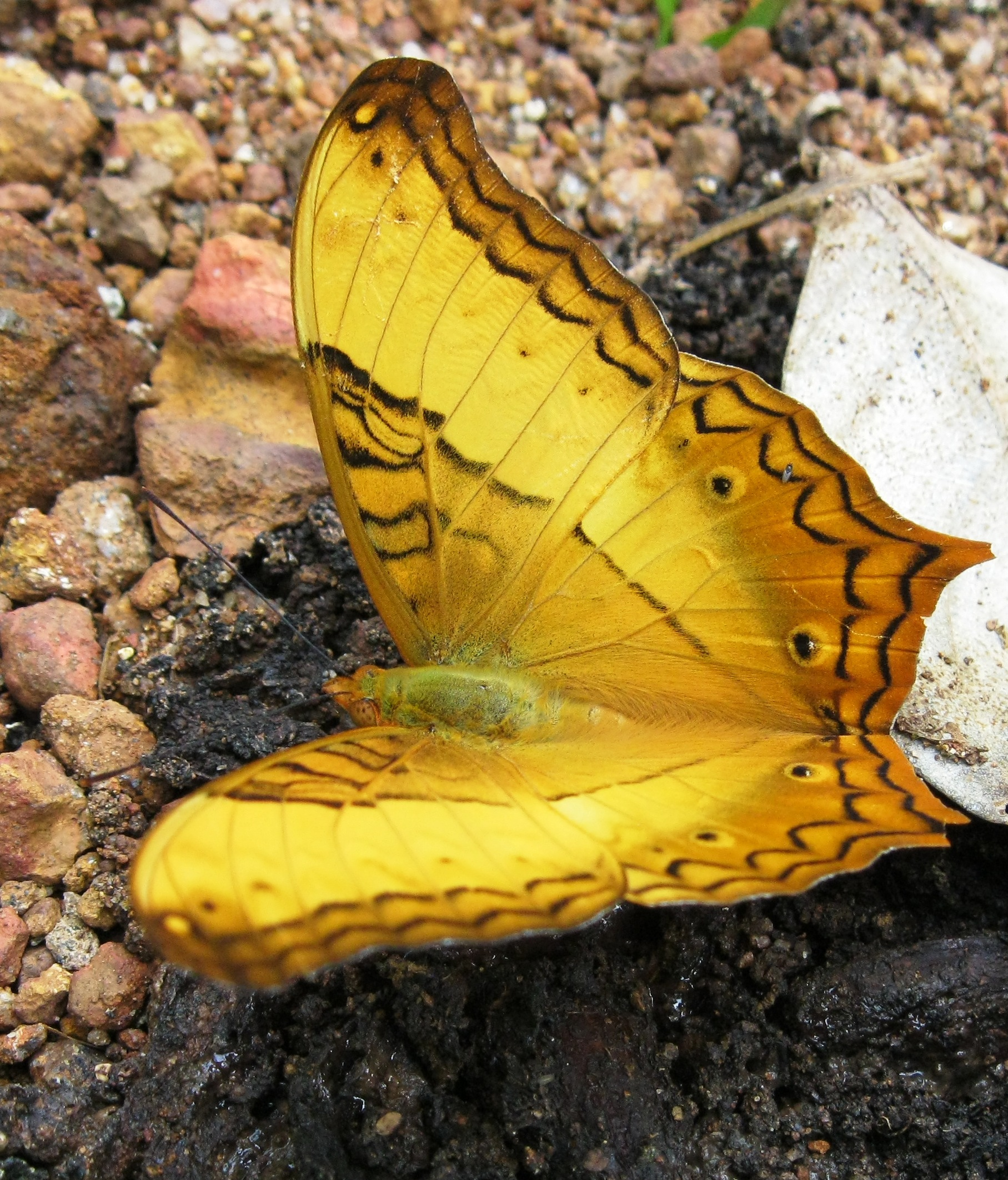 Cruiser butterfly in malappuram, kerala